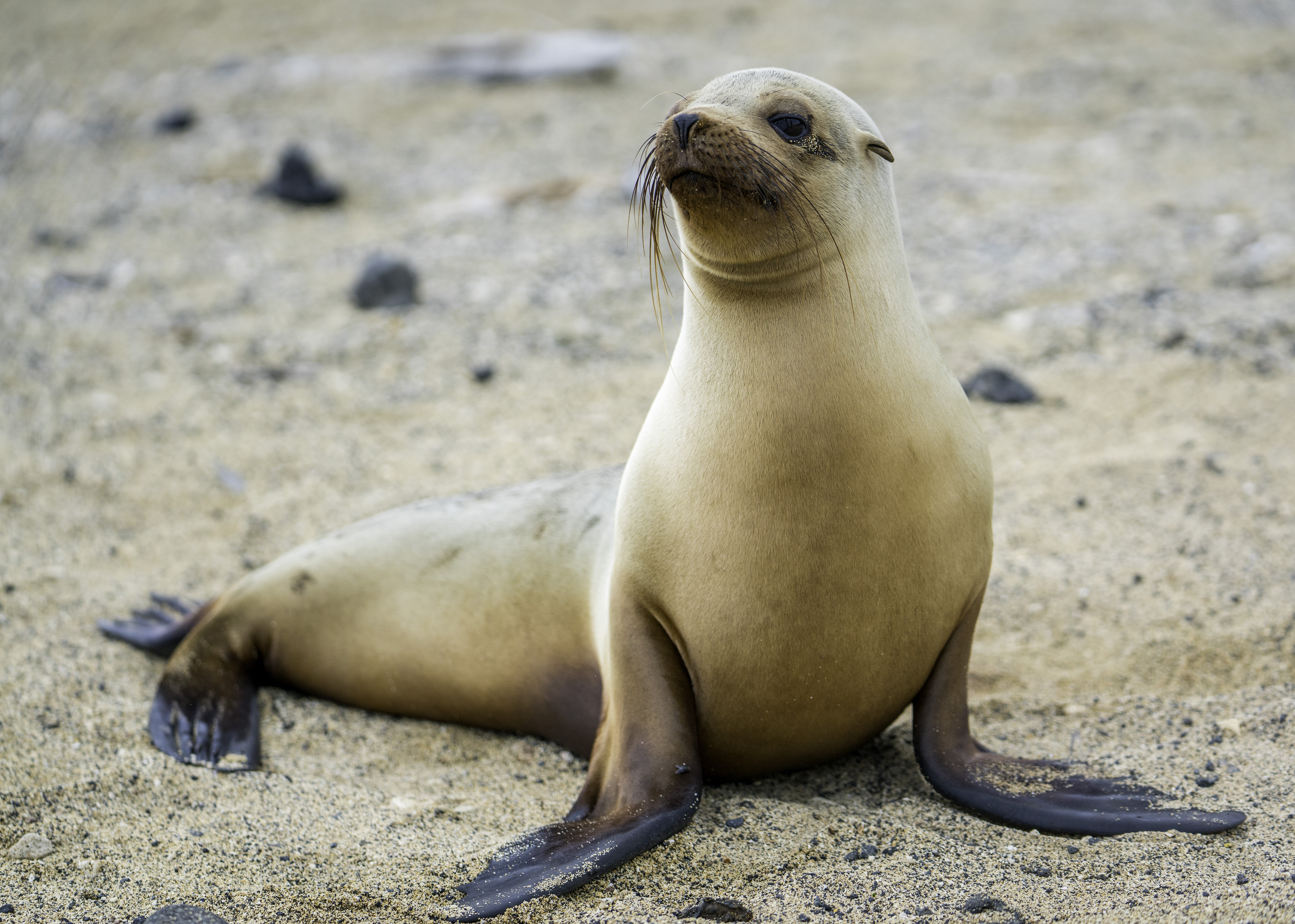 Galápagos sea lion, Las Tintoreras, Isabela, Galápagos Islands